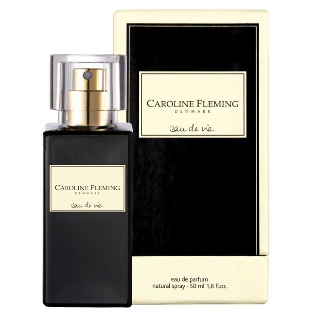 Perfume bottle with empty carton